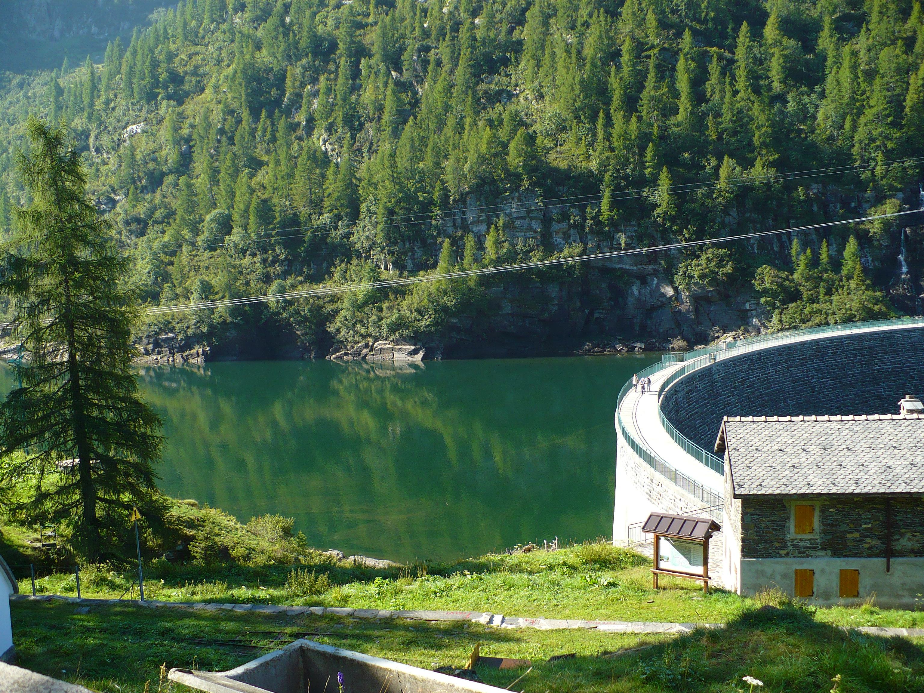 View of the Lago Sardegnana arch dam. The trail crosses the edge.